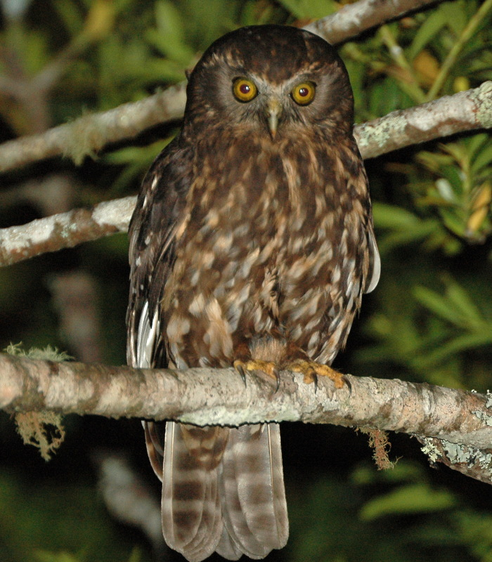 Morepork (Southern Boobook) Warkworth, New Zealand. Māori: Ruru